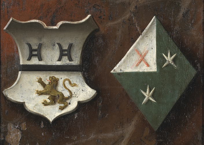 Job triptych, left outer wing, detail.